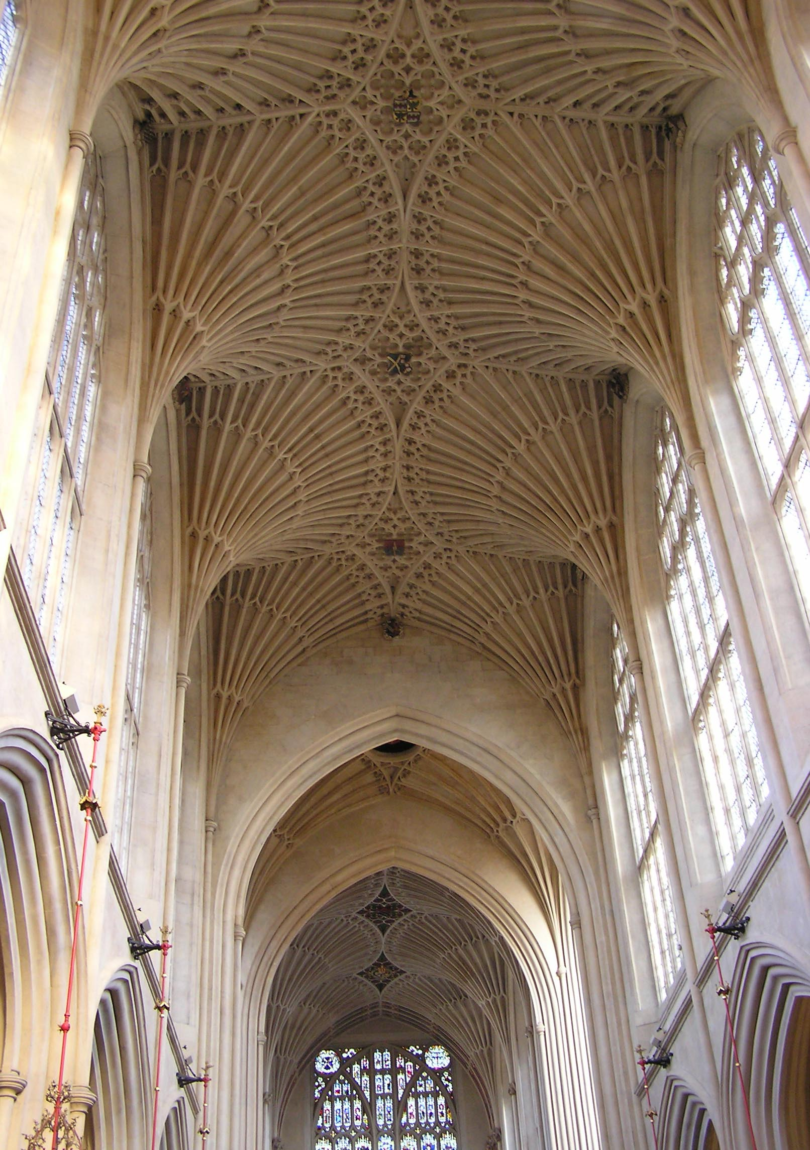 Fan vaulting over the nave at Bath Abbey, Bath, England, dating from a major restoration of the roof in the 1860s. Made from local Bath stone. Taken by Adrian Pingstone in March 2005, and released to the public domain.